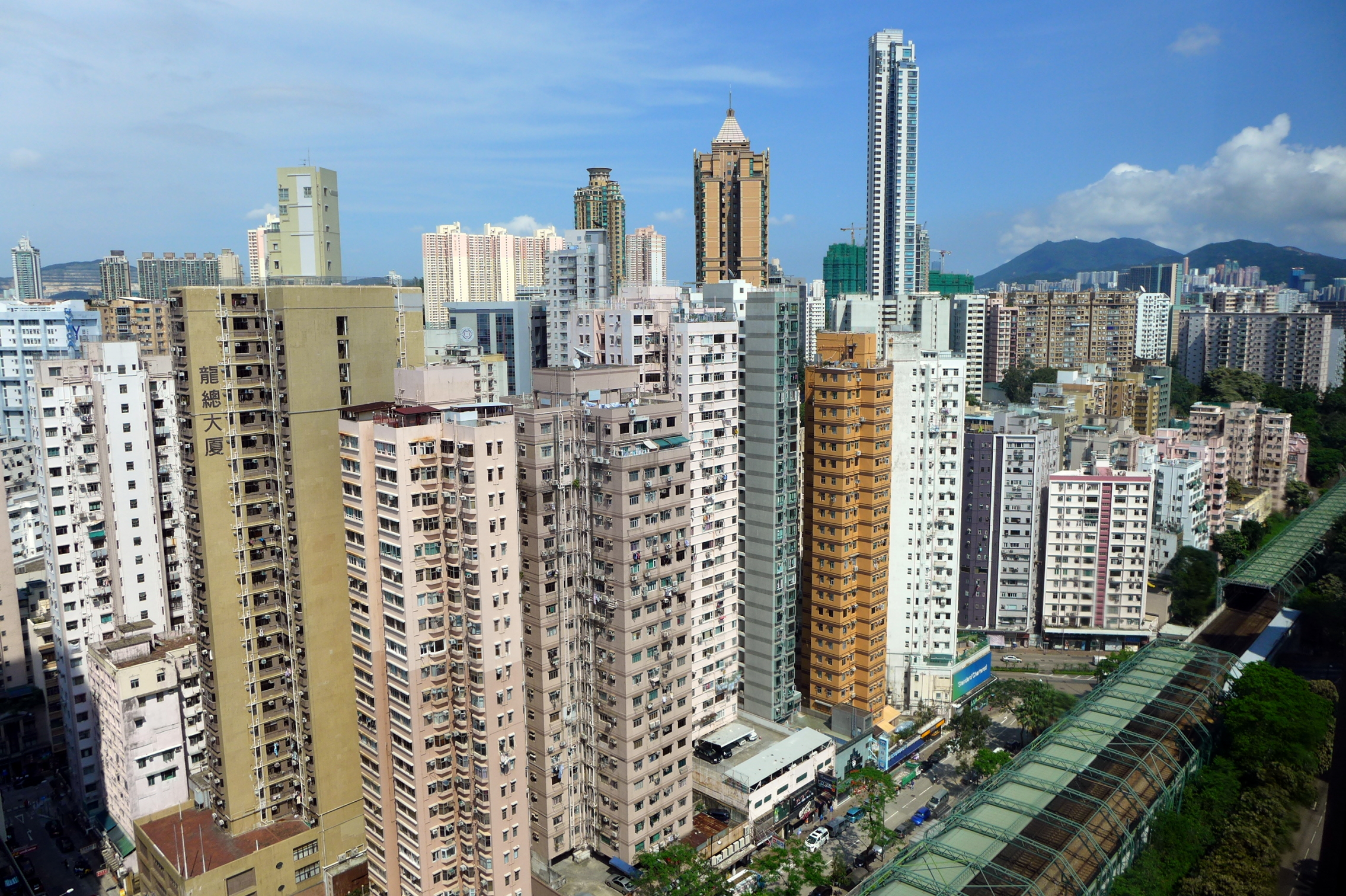 Ho Man Tin Residence